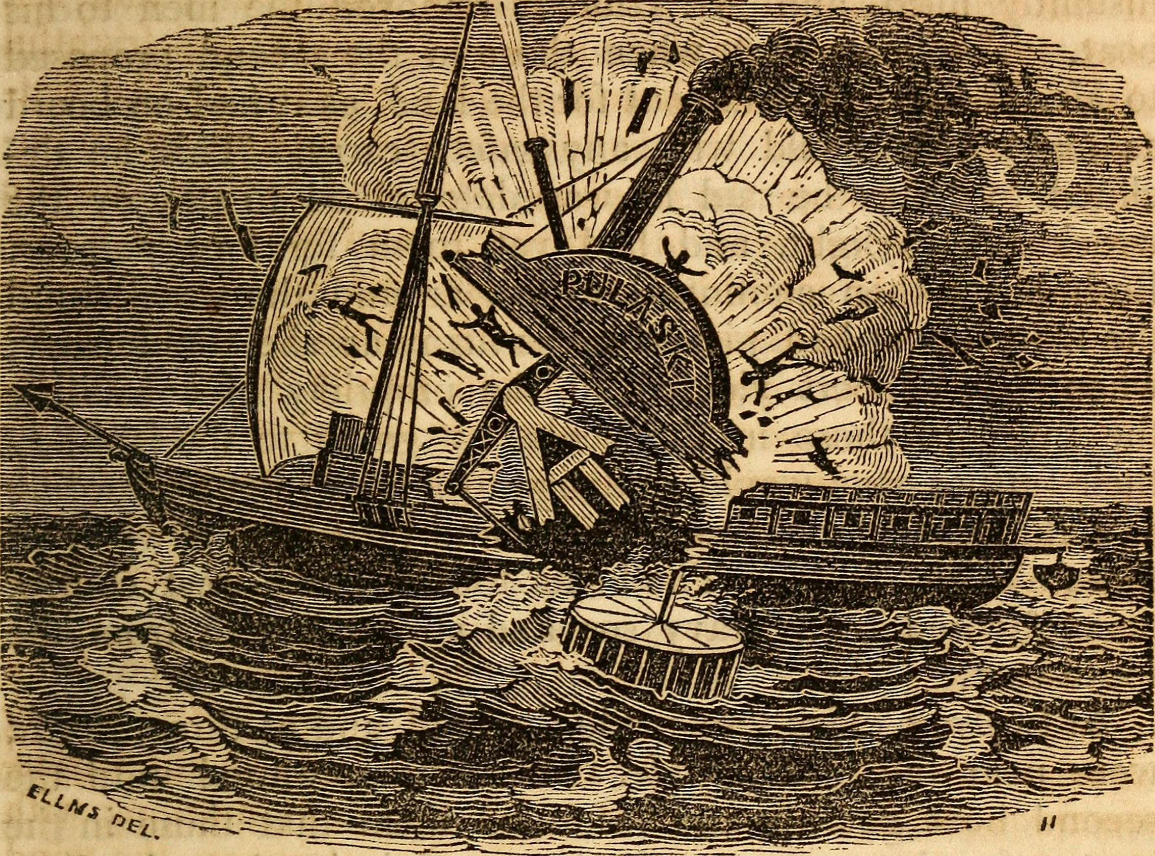 An illustration of the Steamship Pulaski disaster, an 1838 boiler explosion